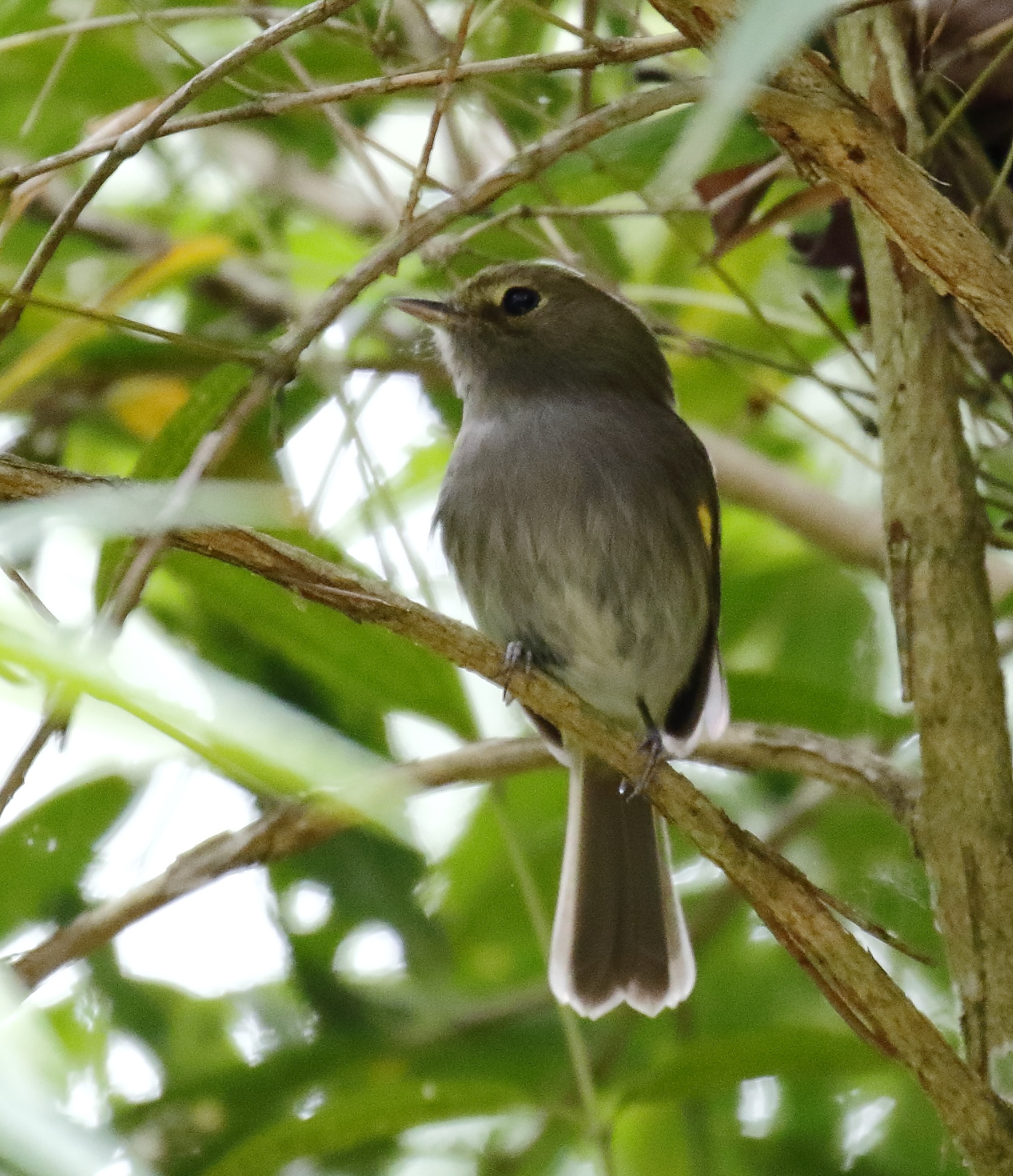 Drab-breasted pygmy-tyrant at Salesópolis - SP - Brazil